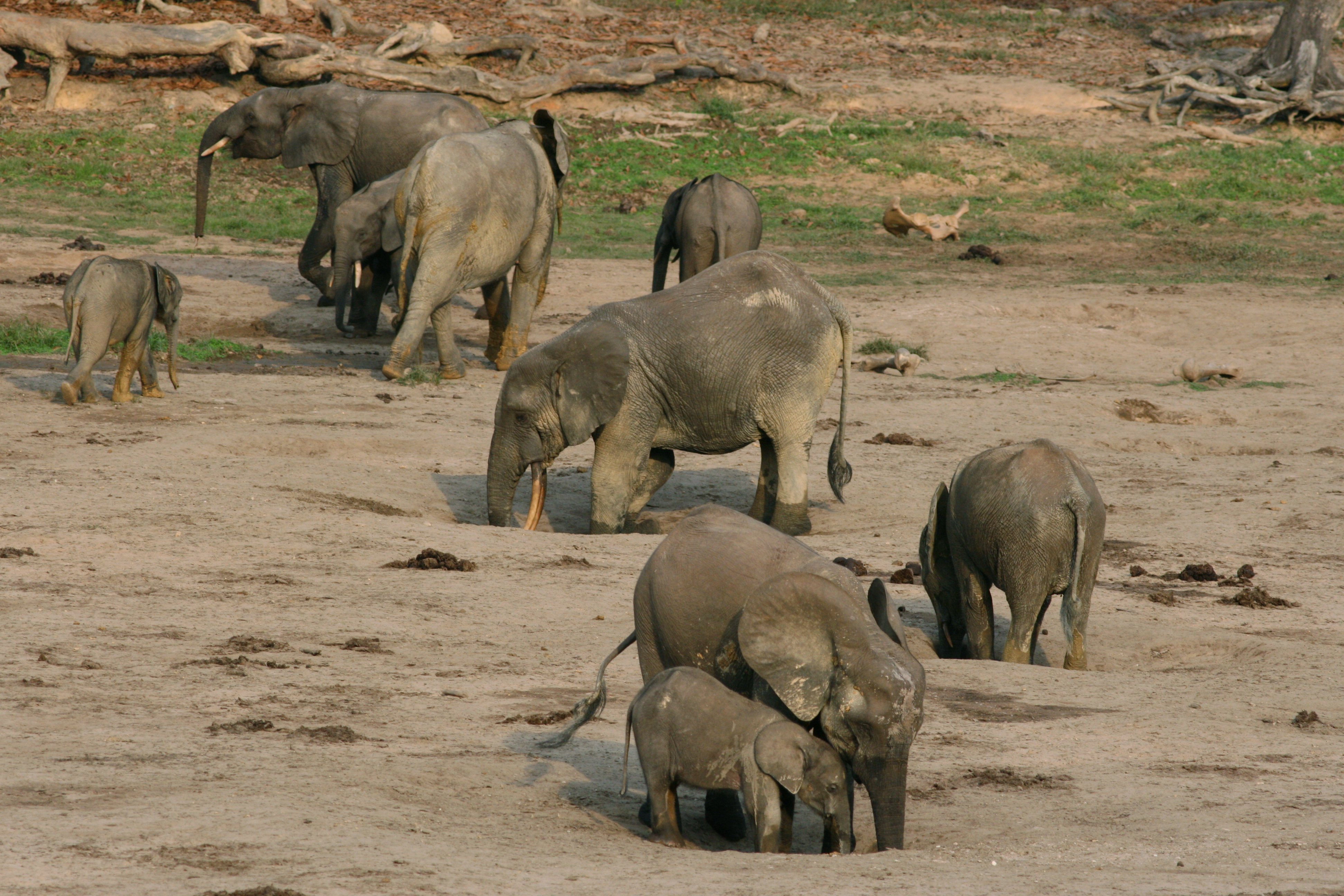 Elephants digging for minerals to eat. Credit: Richard Ruggiero/USFWS